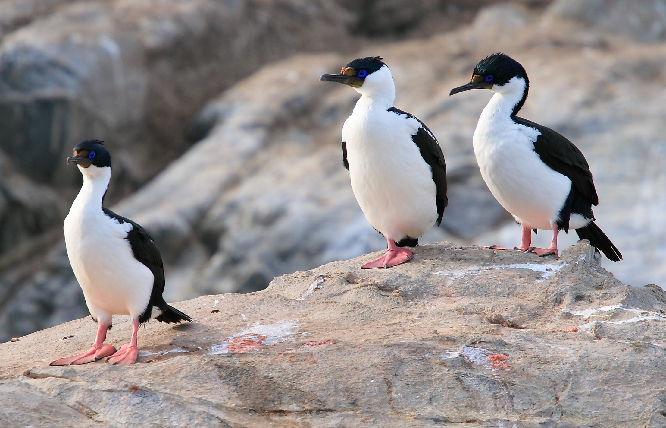 Imperial Shag (Phalacrocorax atriceps), Beagle Channel, southern Argentina